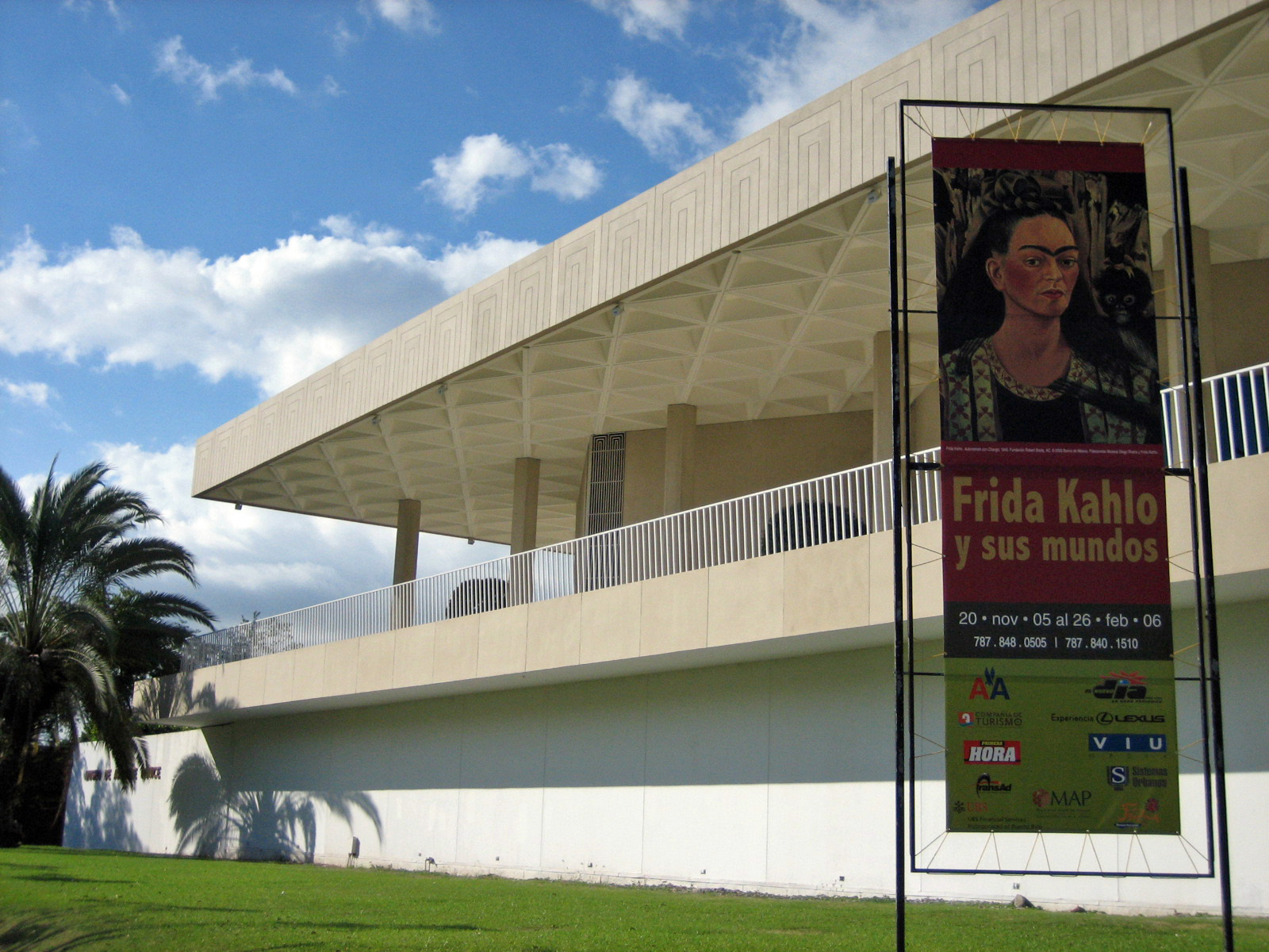 Facade of the Museo de Arte de Ponce, Puerto Rico. Designed by Edward Durell Stone.